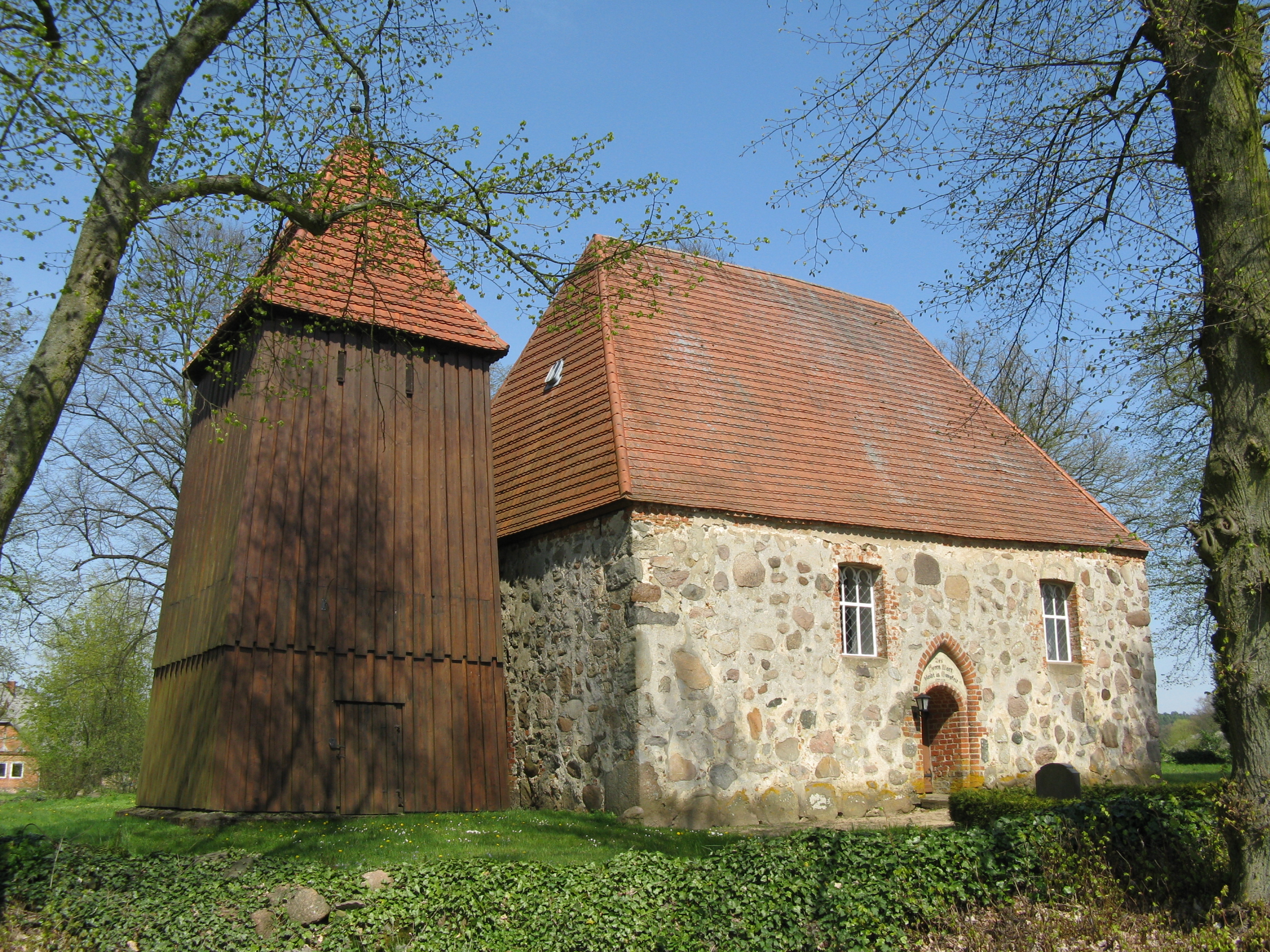 Church in Drefahl, Mecklenburg-Vorpommern, Germany